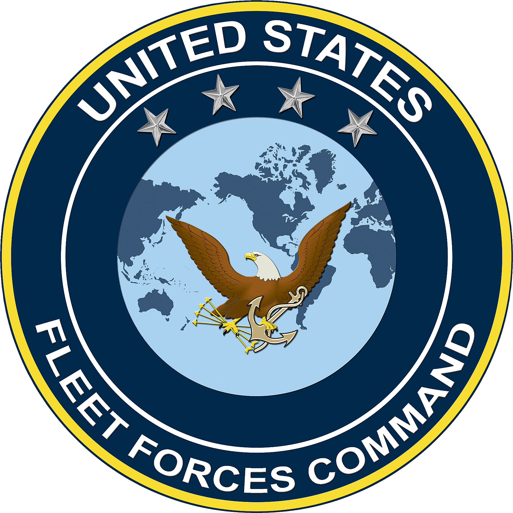 The official emblem of the Commander of the United States Fleet Forces Command. The bald eagle represents the Fleet, ever vigilant, able to dominate its environment, and, when necessary, be decisively lethal. The four arrows, clutched securely within the eagle's talons represent the Fleet’s striking power and its ability to provide credible combat power anywhere in the world’s four oceans. The four stars represent the authority of the Commander and are silver in color to indicate the Joint nature of the Command's mission and the Joint warfighting capability of the Fleet. The fouled anchor is symbolic of naval heritage and of the strong bond between the past, present, and future generations of Navy leaders. It also recognizes that the combat readiness of the Fleet is anchored in a shore infrastructure that is well organized, manned by professionals, and efficient in execution.